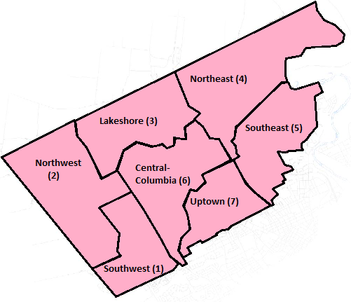 Map of Waterloo, Ontario's wards